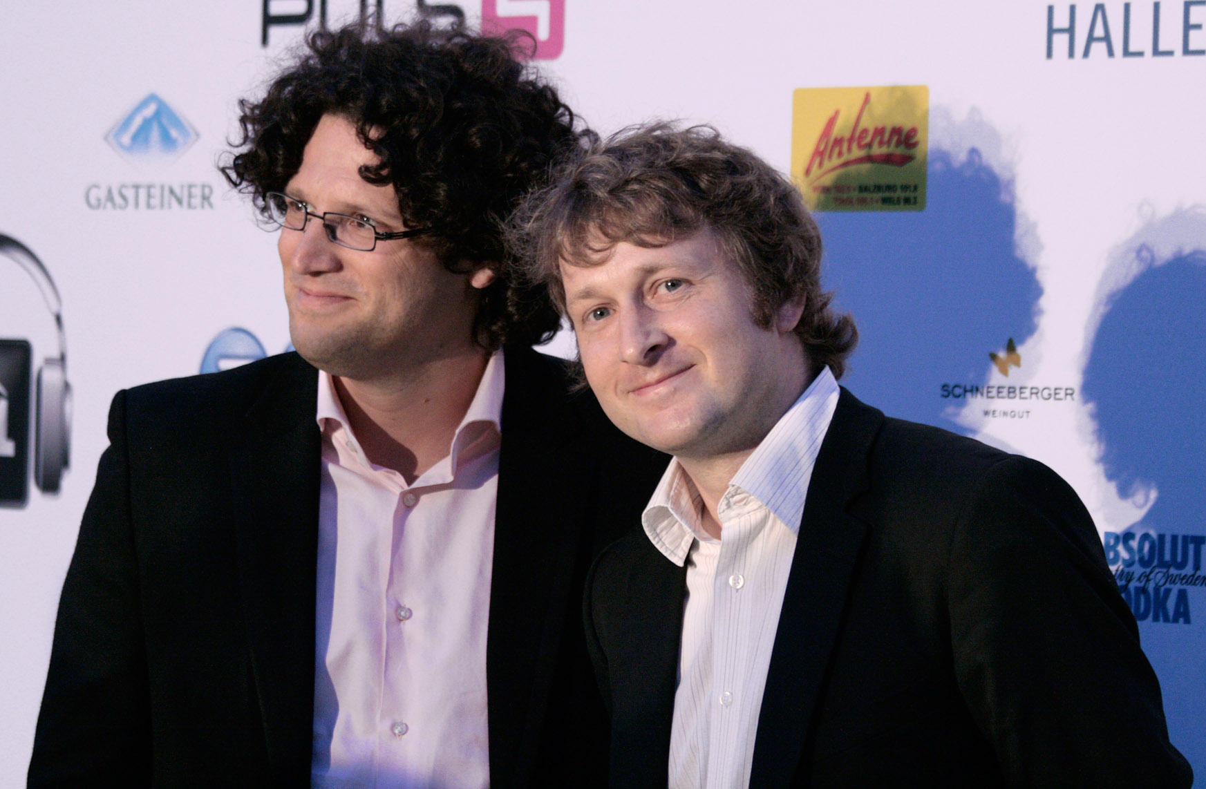 Die Strottern at the Amadeus Austrian Music Award (Museumsquartier, Vienna)